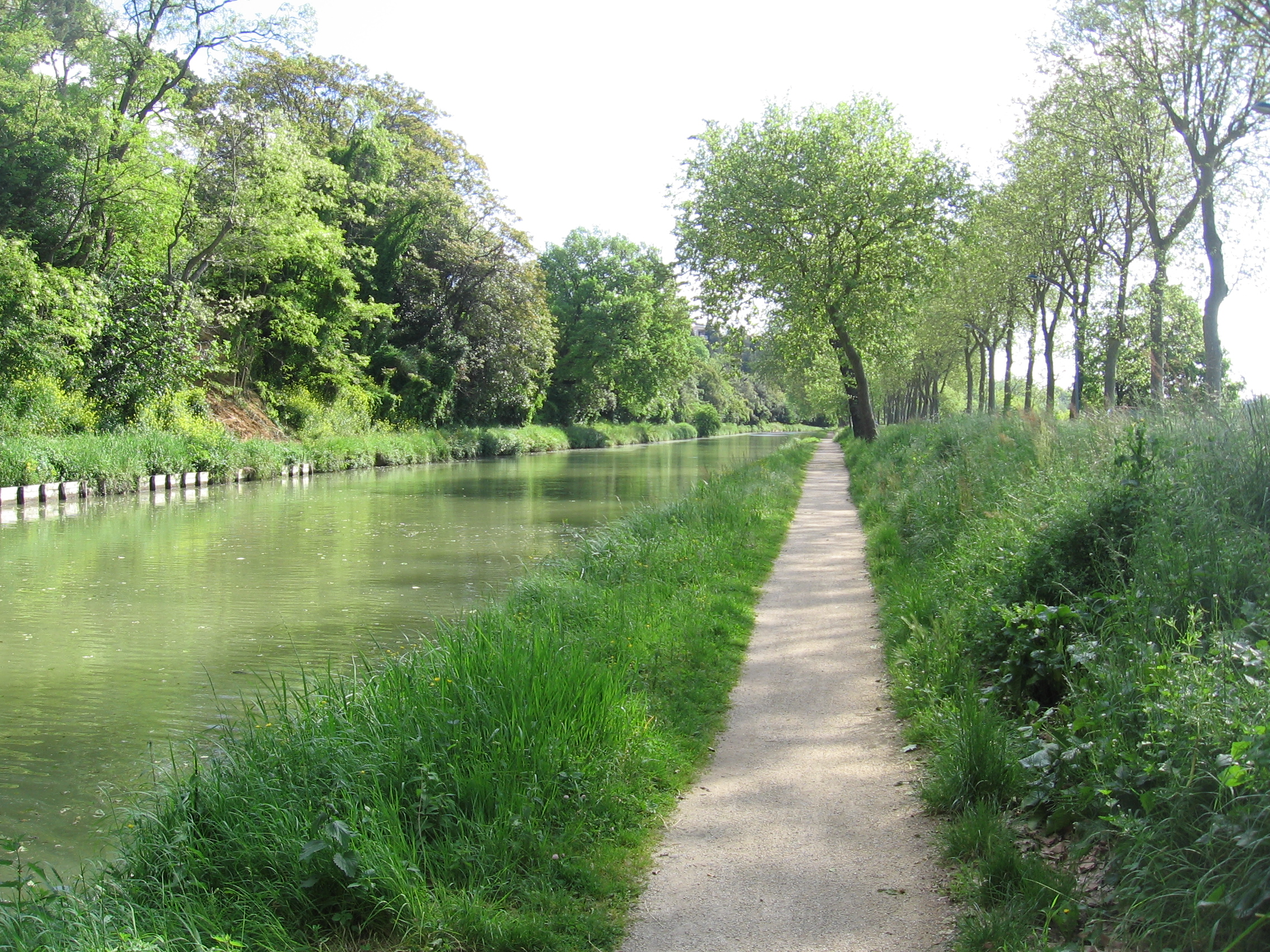 Canal du Midi in Carcassonne